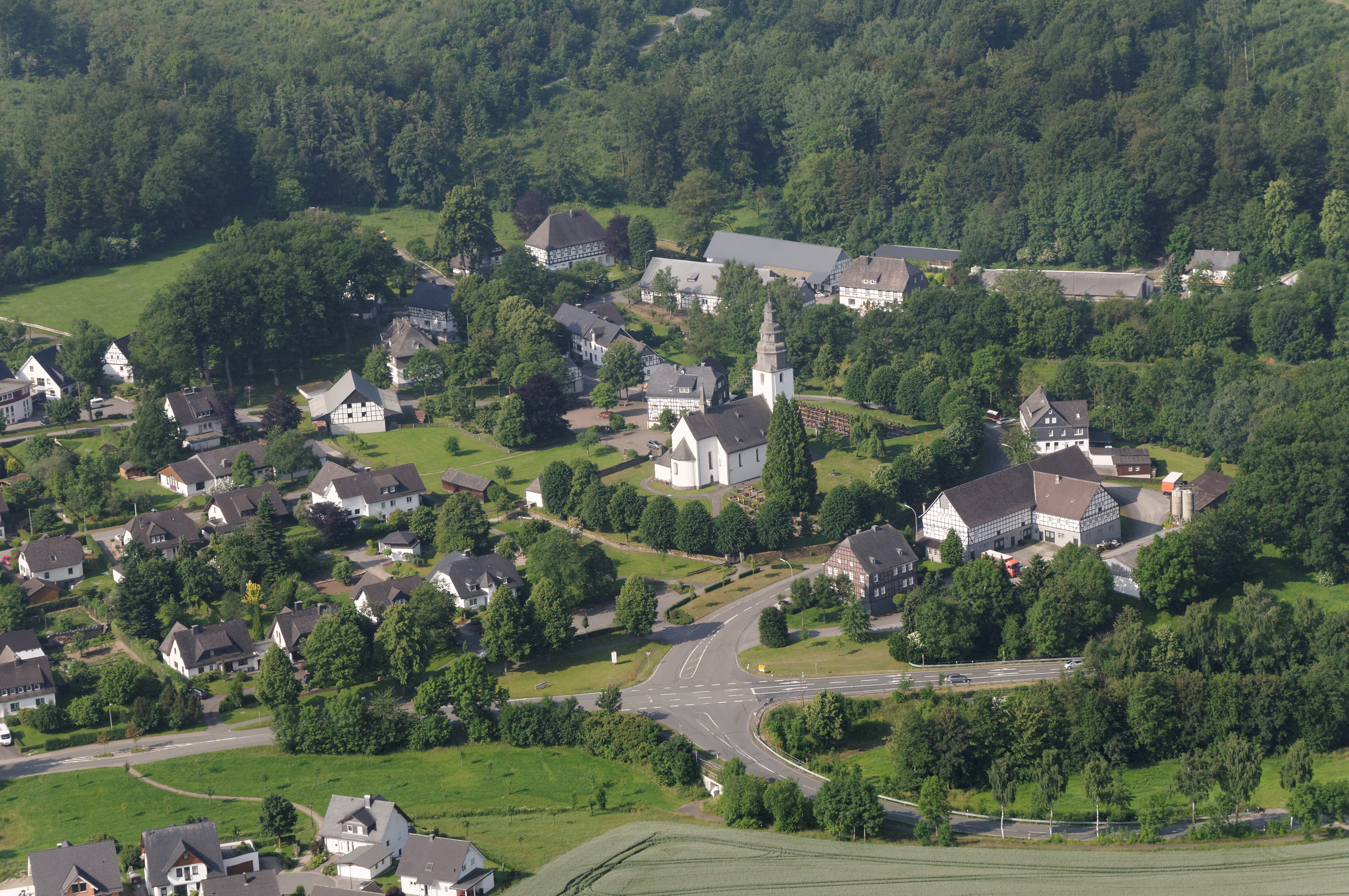 Fotoflug Sauerland-Ost: Kirche St. Peter und Paul in Schmallenberg-Wormbach The making of this document was supported by the Community-Budget of Wikimedia Germany.